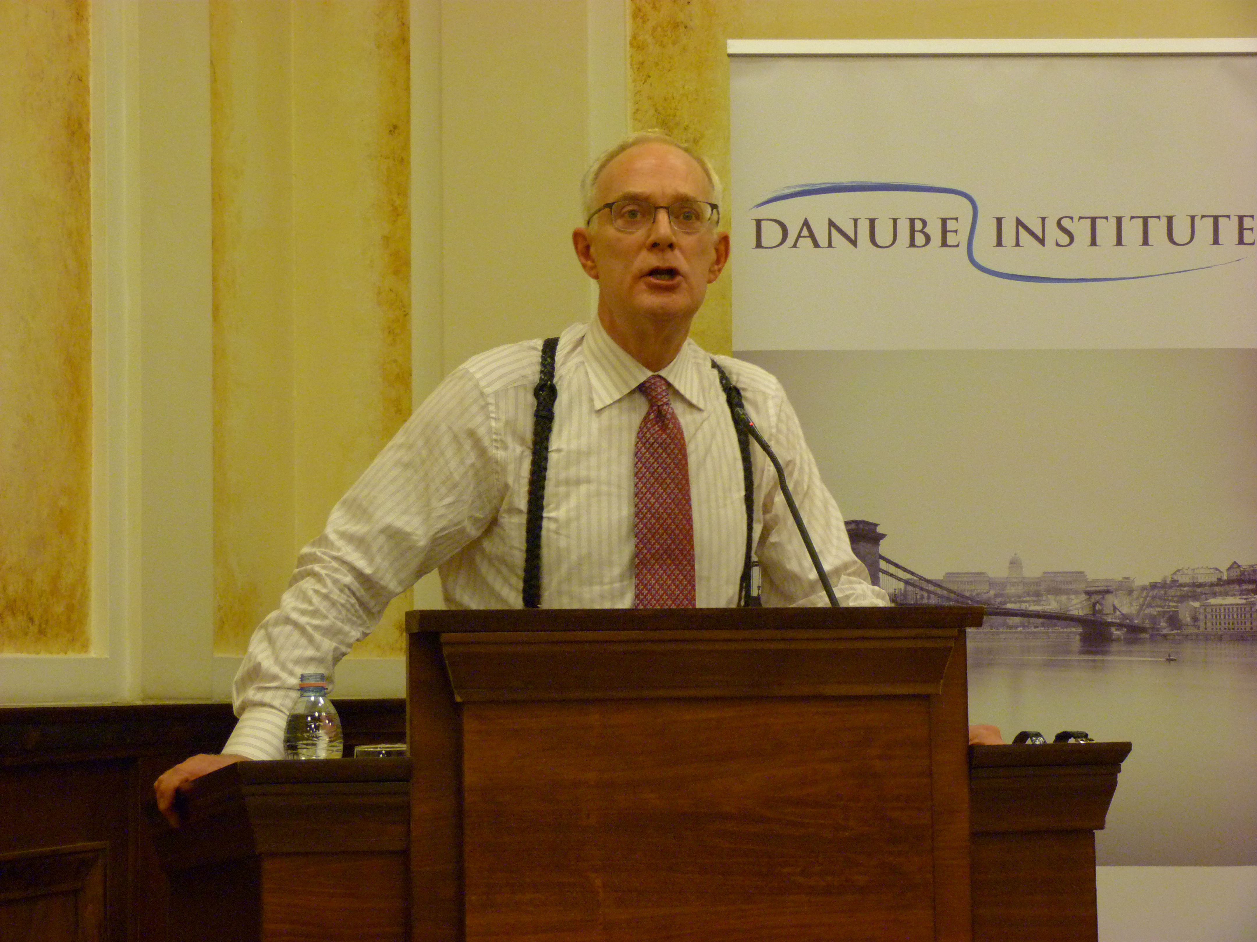 Live on the 12th of June, 2014. Budapest, Corvinus Egyetem. Danube Institute. Prof. Christopher DeMuth. American lawyer and fellow at the Hudson Institute. He was the president of the American Enterprise Institute (AEI), a conservative think tank, from 1986 to 2008 DeMuth is widely credited with reviving AEI's fortunes after its near-bankruptcy in 1986 and leading the institute to new levels of influence and growth. Before joining AEI, DeMuth worked on regulatory issues in the Ronald Reagan administration. When Reagan took office in 1981, DeMuth joined the administration as administrator for information and regulatory affairs at the Office of Management and Budget and executive director of the Presidential Task Force on Regulatory Relief. He was known as Reagan's "deregulation czar." Since retiring as president of AEI, DeMuth has held the D. C. Searle Chair there, researching government regulation, culture, and American politics. Stumpf István and Bod Péter Ákos participated at the lecture. Tags: Danube Institute 2014 Budapest Corvinus University American Enterprise Institute Ronald Reagan Sources: DI flyer en.wikipedia ©© Derzsi Elekes Andor, Budapest, 2014, You are authorised to use these photos and vids under Creative Commons – even for commercial, for profit purposes. Photos must be attributed to Derzsi Elekes Andor. All of the photos and vids in the Metapolisz DVD line are under Creative Commons and can be used even for commercial – for profit – purposes. Recommended Citation Derzsi Elekes Andor: Metapolisz DVD line